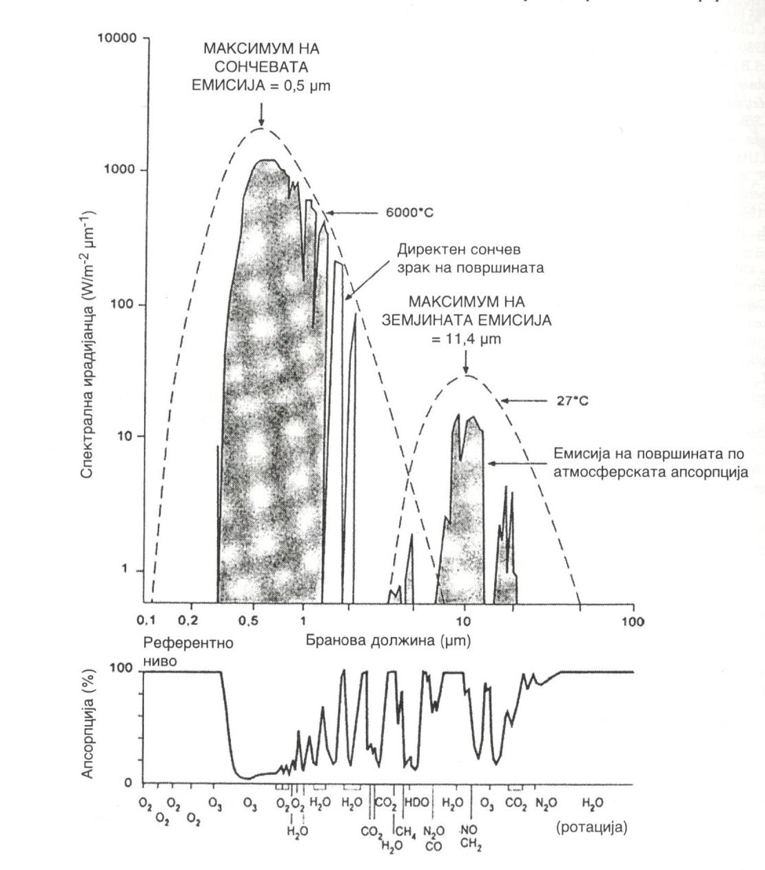 Chapter for the Greenhouse effect from the Encyclopedia of world climatology edited by John E. Oliver, translated on Macedonian